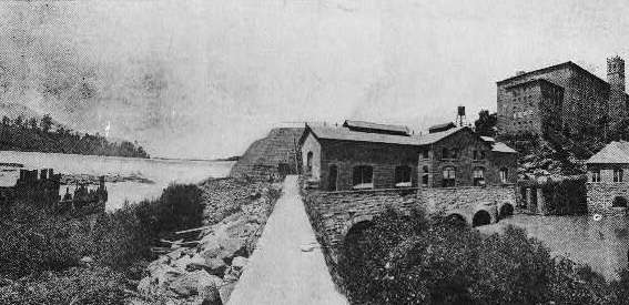 Old power plant of of the North Highlands Dam - built circa 1903 - Columbus, Georgia